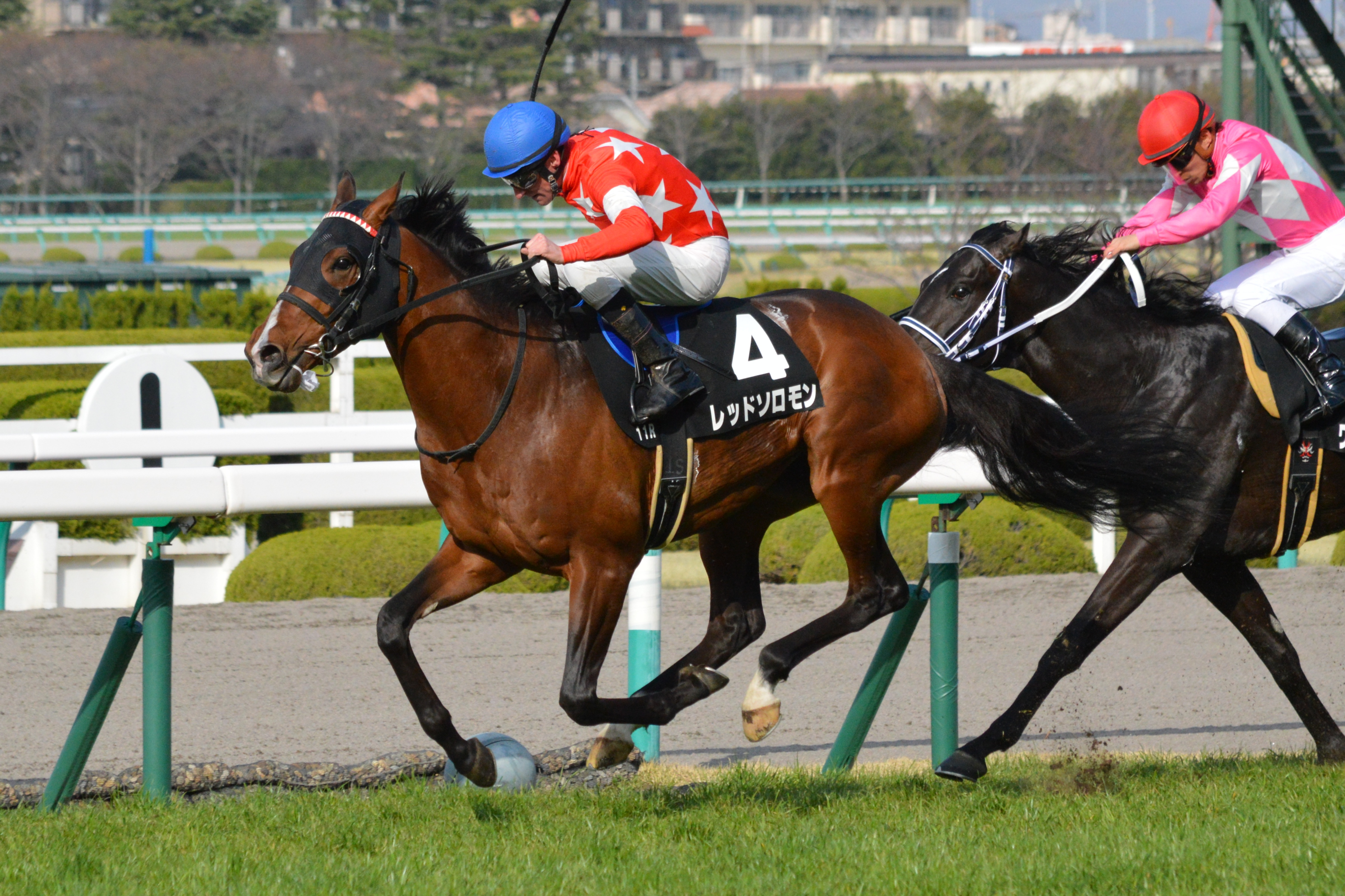 Japanese race horse Red Solomon at Hanshin racecourse.